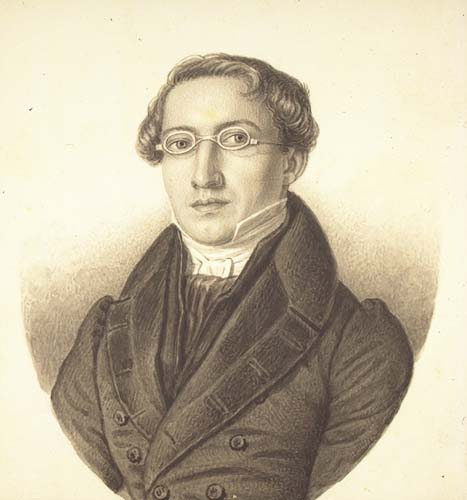 Christopher Eipper